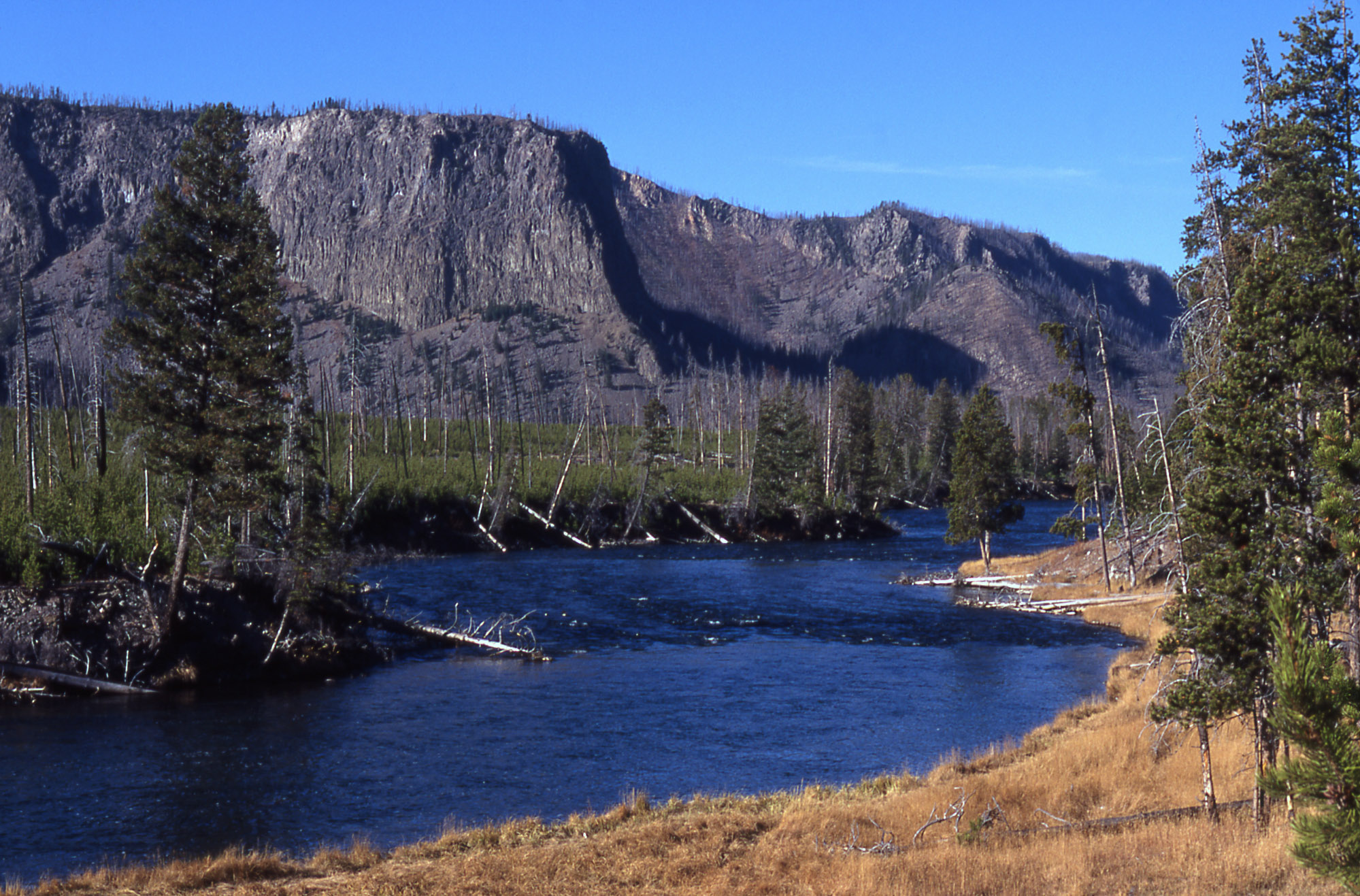 Madison River under Mount Haynes, inside Yellowstone National Park, Wyoming, USA